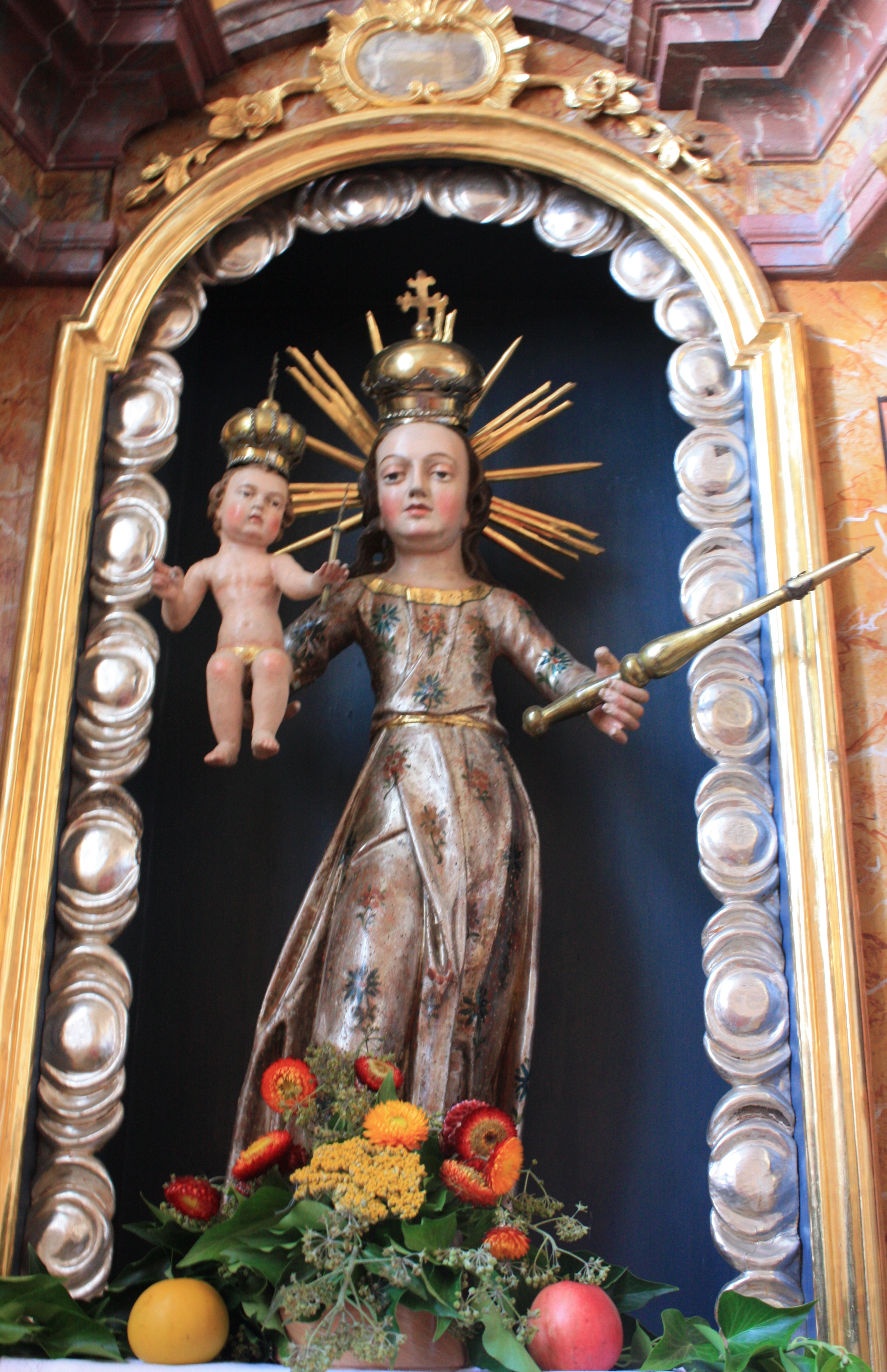 Parish church „Saint Mary Magdalene“ in Ruden in the community of Ruden - Marian-altar - Madonna